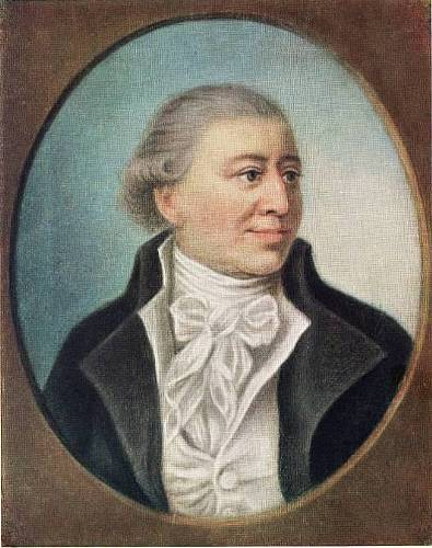 Conrad Alexander Fabritius-Tengnagel (1731-1795)